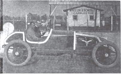 Twenty-Nine Cars Ready for Big Race article beginning on page 1093. Photograph contains caption "Bob Burman at the wheel of the Keeton entry". Bob Burman's Keeton (automobile company) racer finished 11th place at Indianapolis in 1913.